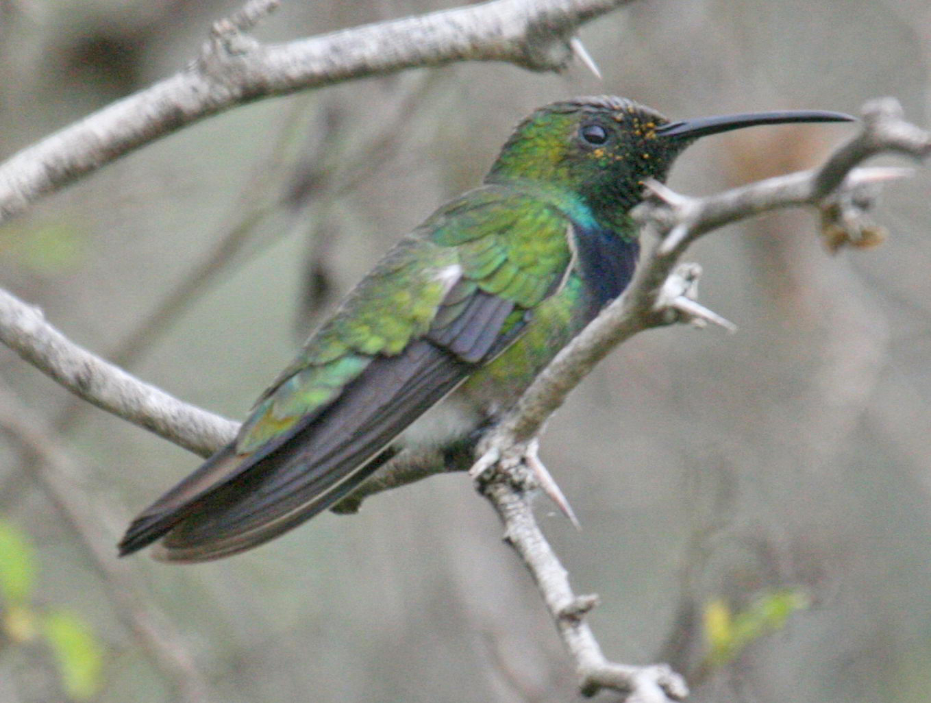 Green-breasted Mango (Anthracothorax prevostii) in Puerto Rico